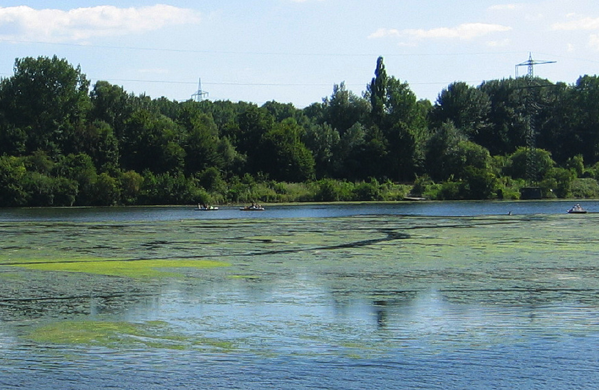 Masses of Elodea canadensis and Elodea nuttallii, Hengsteysee, North Rhine-Westphalia, Germany.